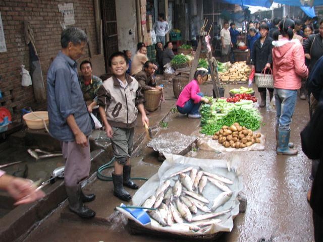 Rural fish farmer and son at Sunday market in Danshan in rural Sichuan